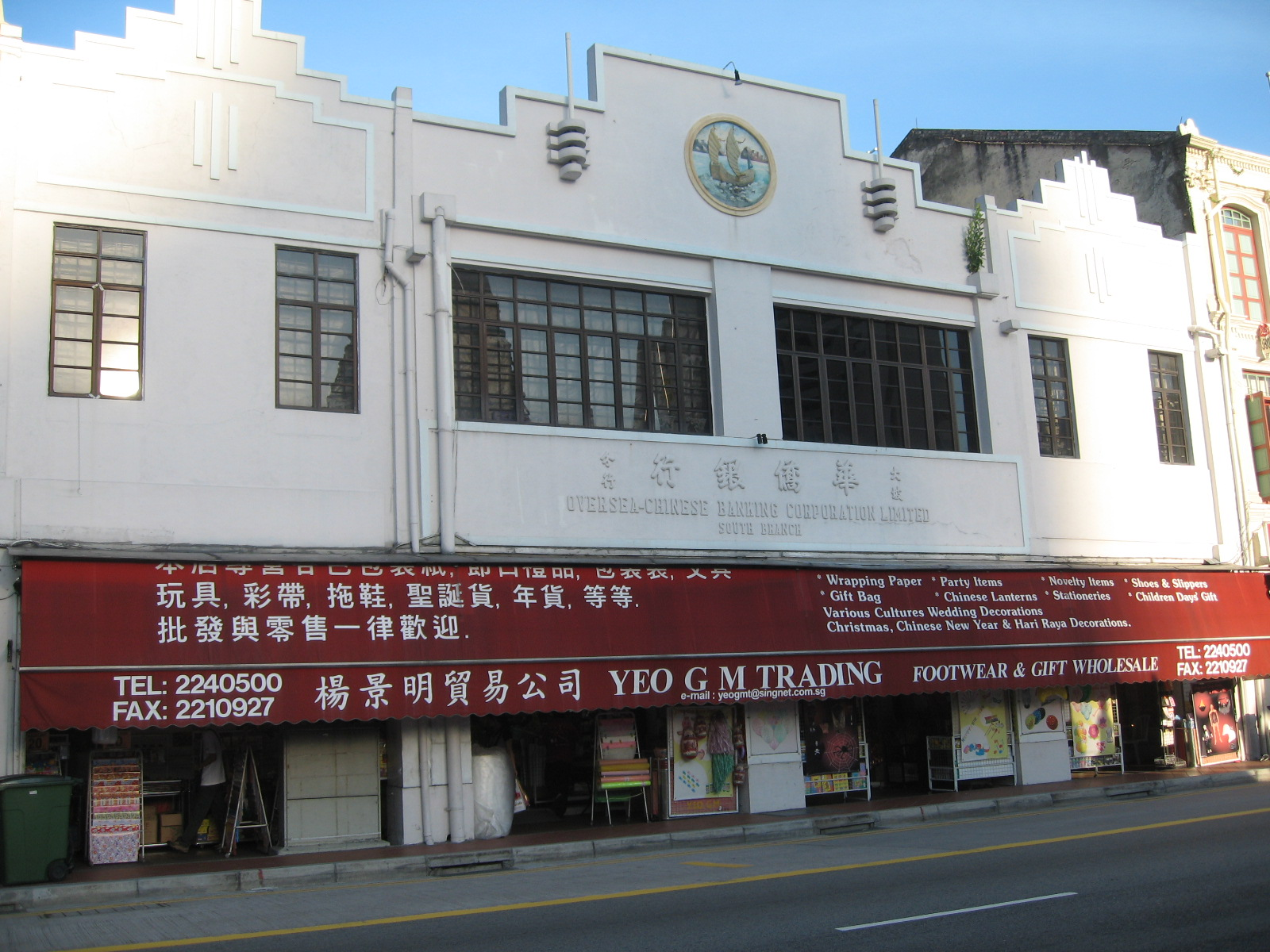 Former OCBC Bank South branch.